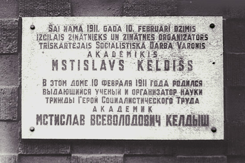 Memorial tablet. Riga, Latvia.